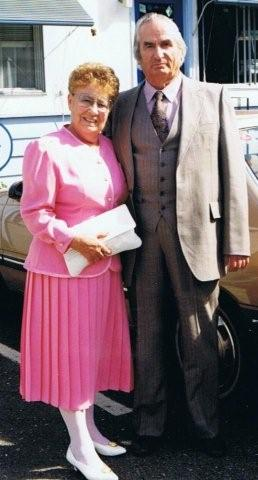 Ken Sweigard, leader of the Social Credit Party of Canada (1983–86) and his wife Audrey